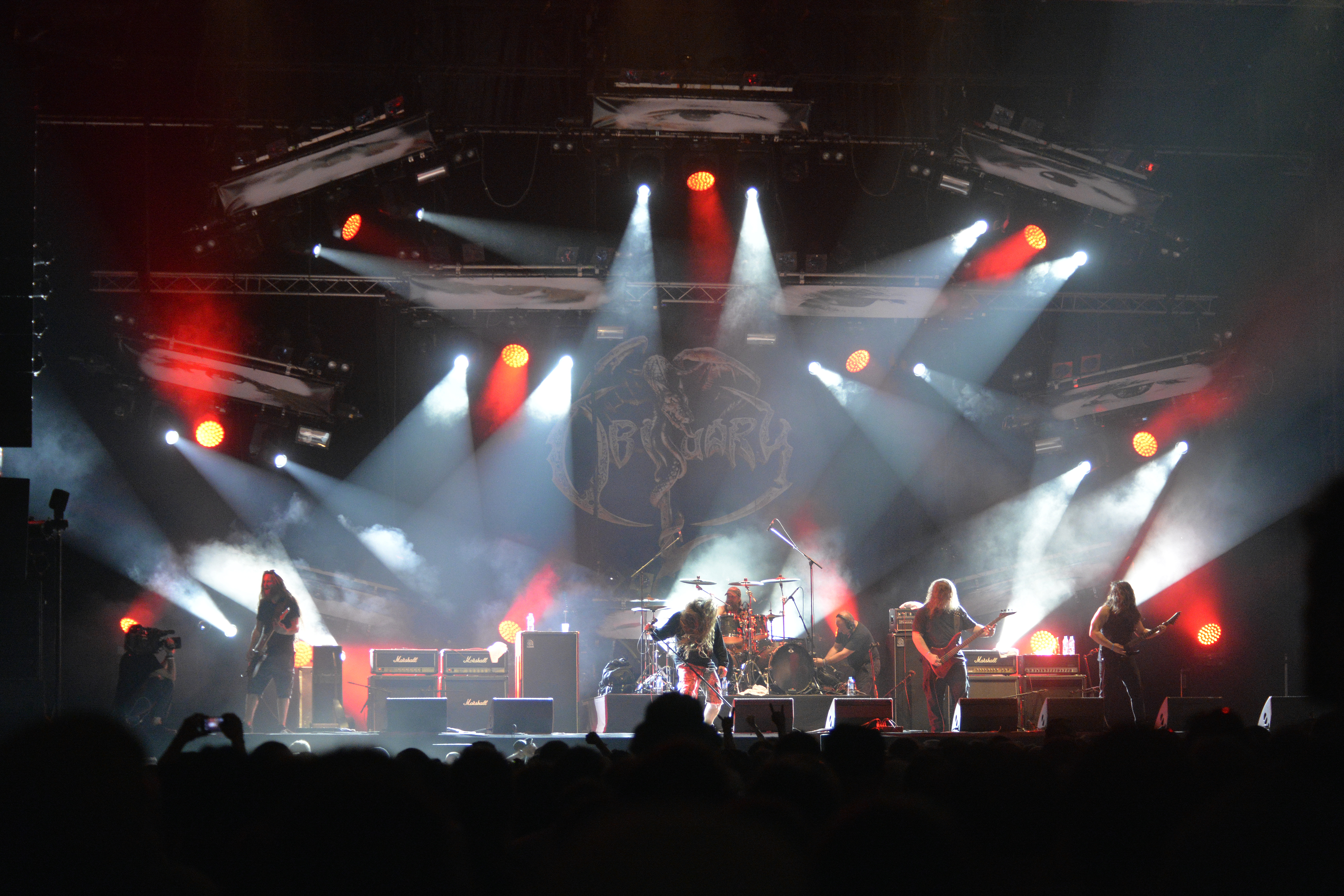 Obituary at Hellfest 2017, France.